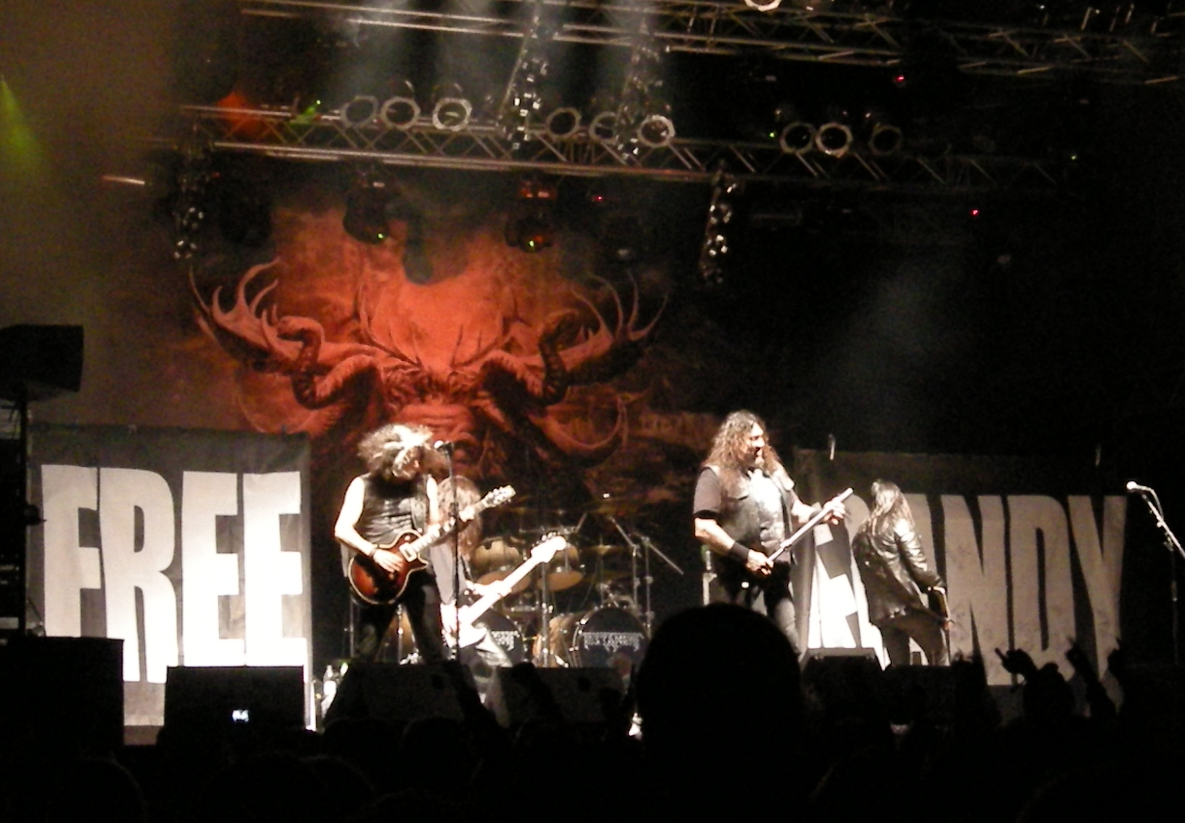 Testament at Skogsröjet 2012